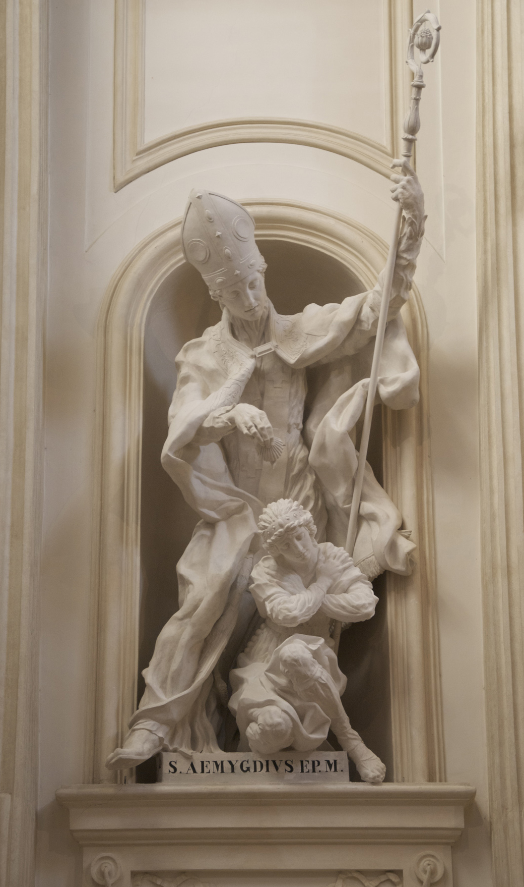 Saint Emygdius baptizing Polisia in the Duomo of Foligno by sculptor Cody Swanson. Date of completion 2012